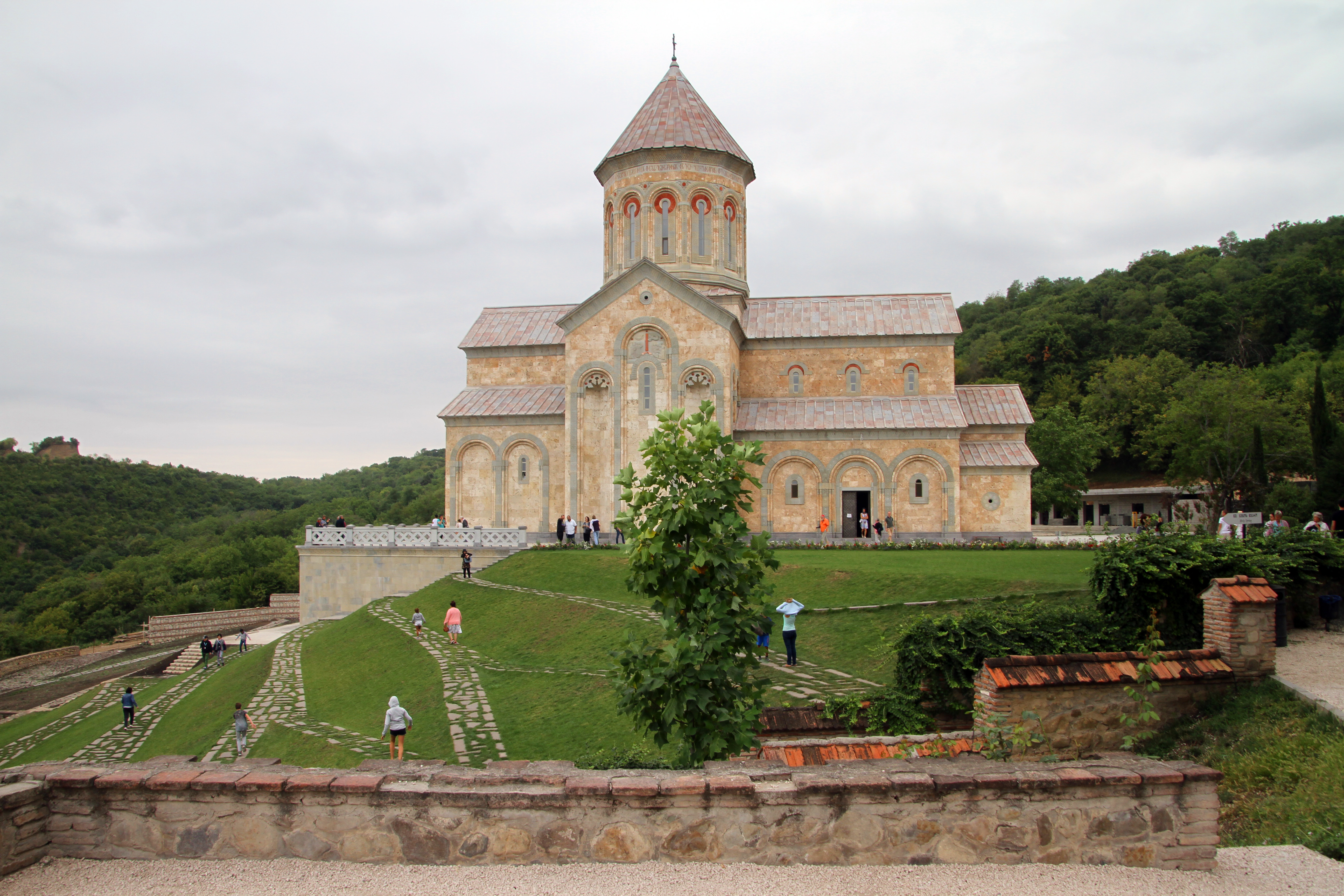 Bodbe Monastery, Sighnaghi